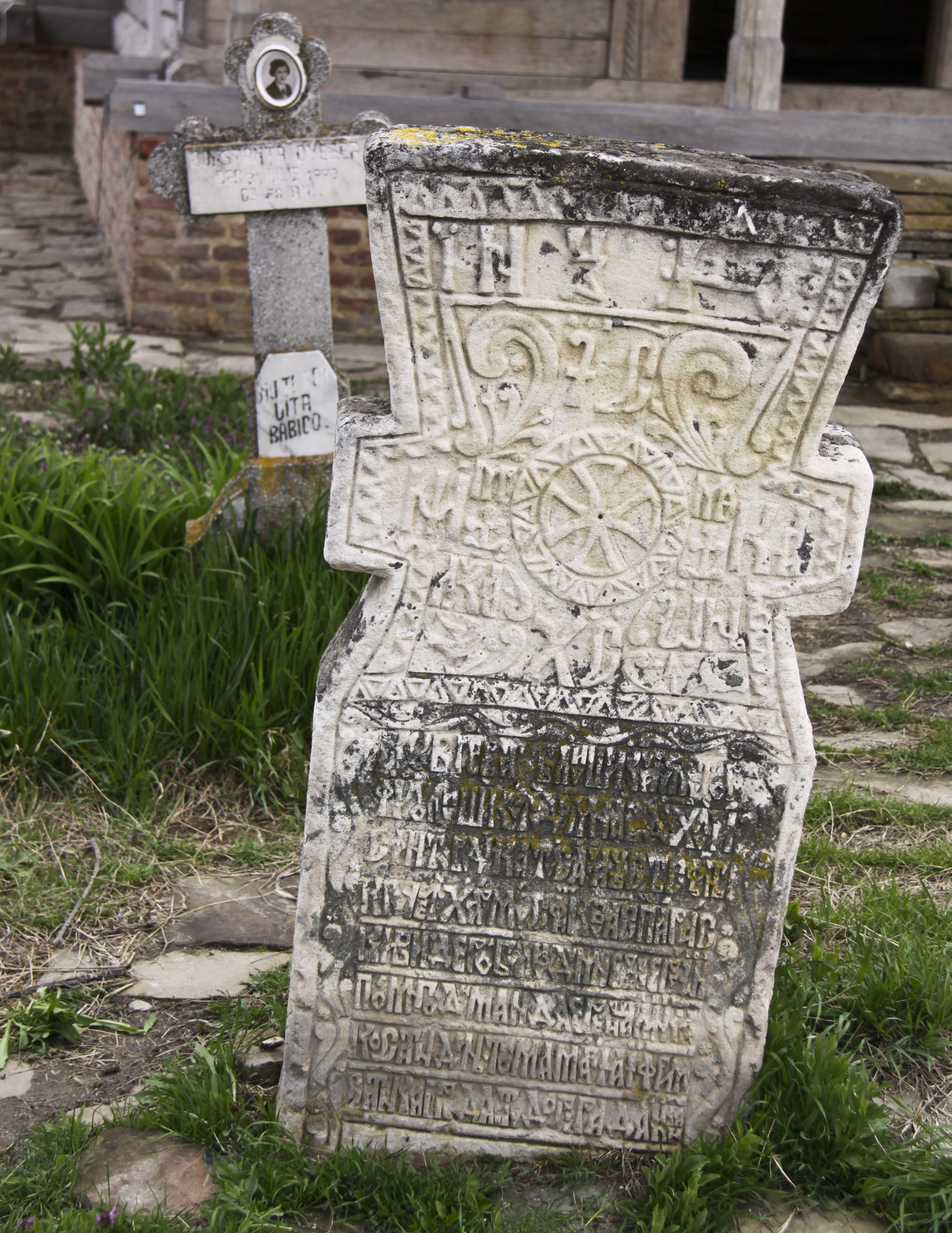 Videle-Cartojani, Teleorman county, Romania: the wooden church.